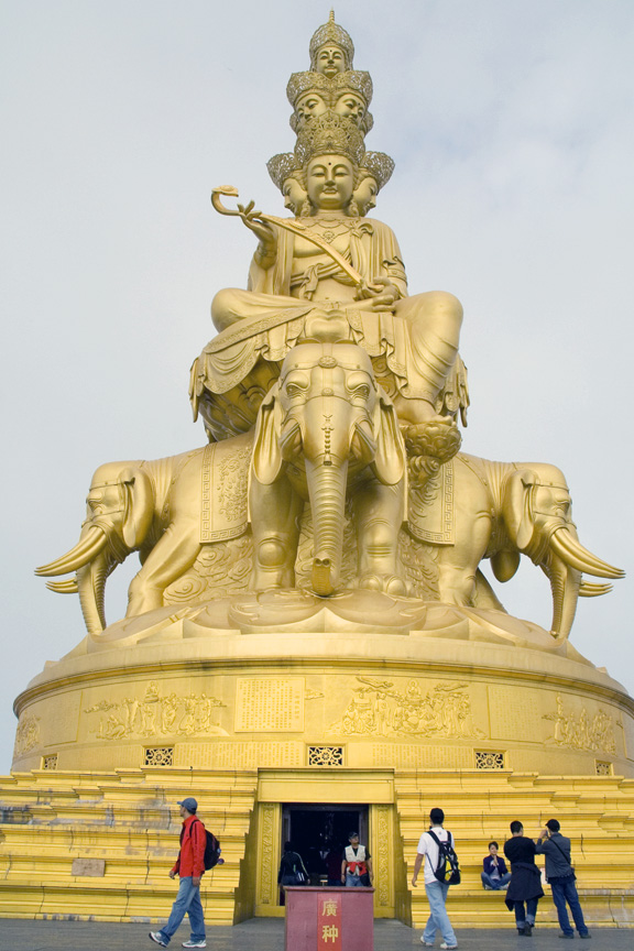 This is Samantabhadra, the bodhisattva of Emei Shan.